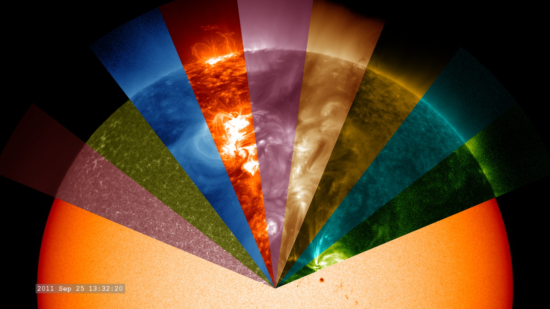 Filters on the Solar Dynamics Observatory applied to small pie-shaped wedges of the Sun, starting with 170nm (pink), then 160nm (green), 33.5nm (blue), 30.4nm (orange), 21.1nm (violet), 19.3nm (bronze), 17.1nm (gold), 13.1nm (aqua) and 9.4nm (green).